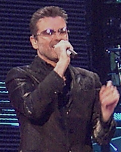 George Michael performing at the Olympiahalle arena (Munich, Germany) in 2006, for the 25 Live tour.